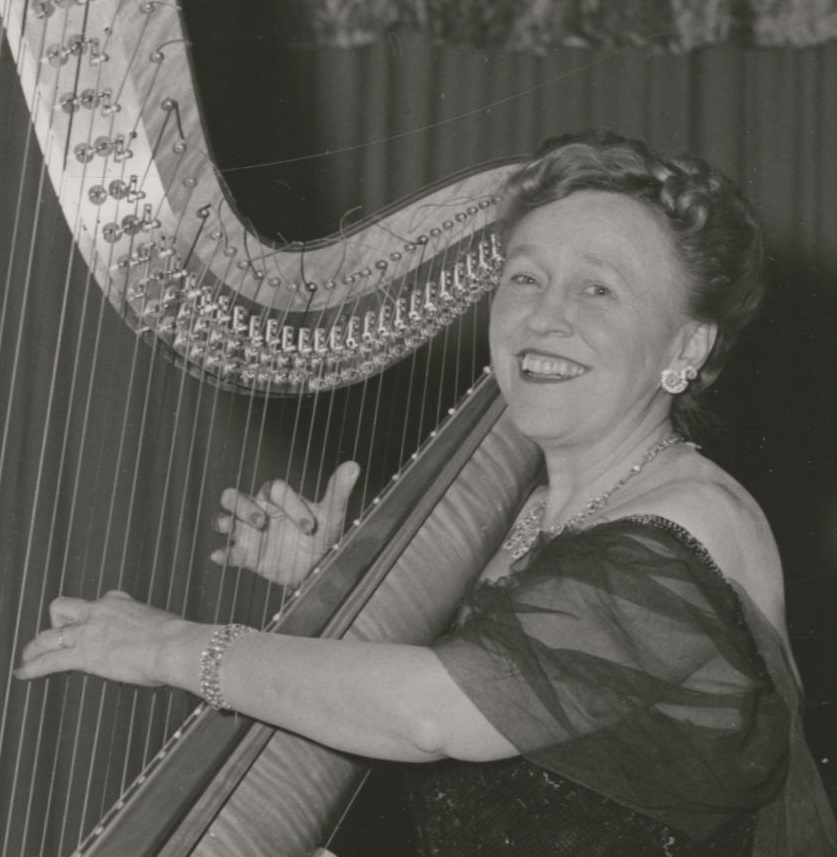 A cropped version of Dilling with her harp during the time she performed for servicemen in WWII.